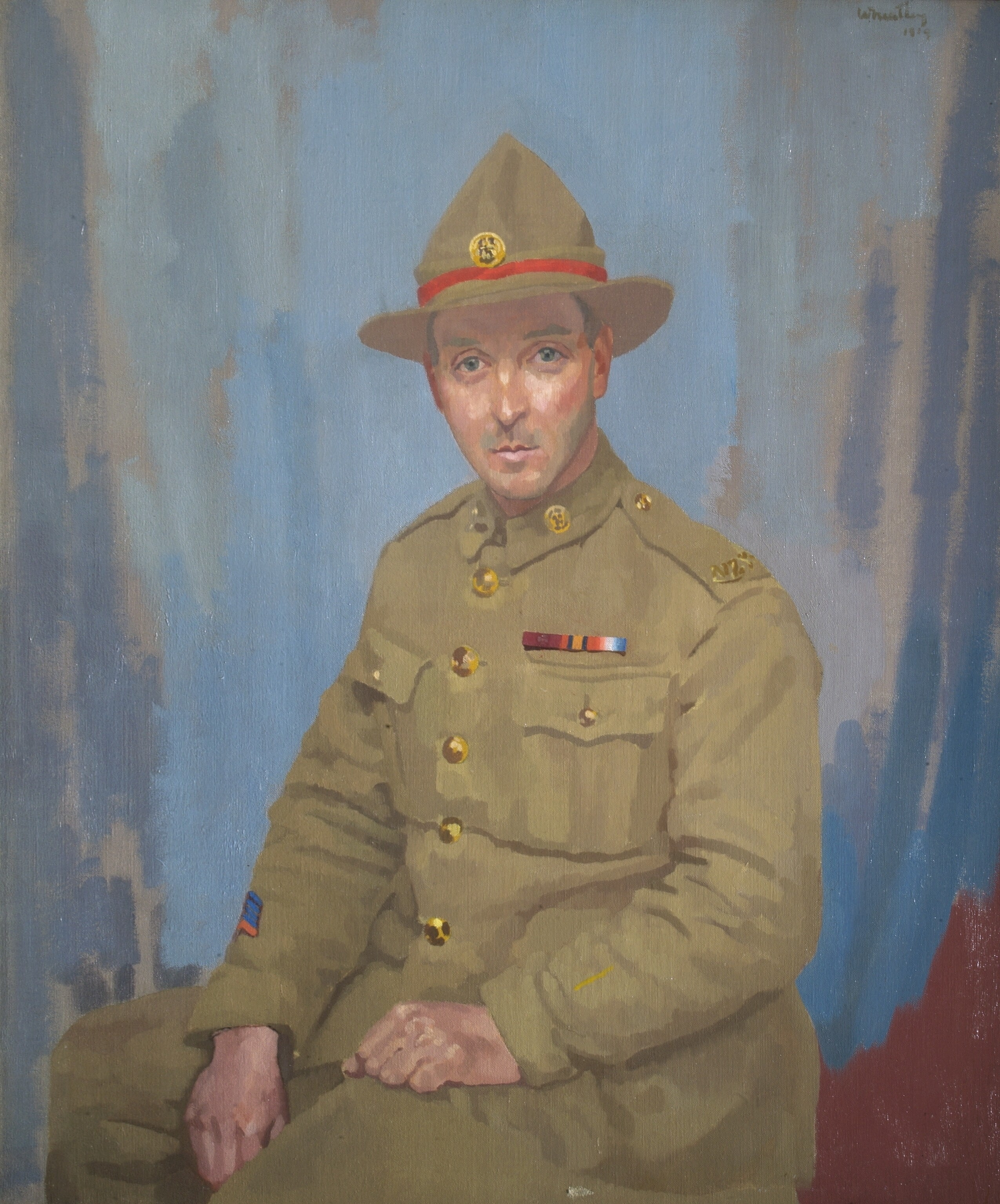 Private James Crichton, Vc (auckland Regiment, Nzef), 1919 image: A half length portrait of James Crichton VC, wearing New Zealand Army uniform.